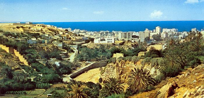 Derna Valley, Libya .